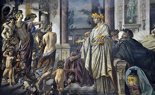 simposium